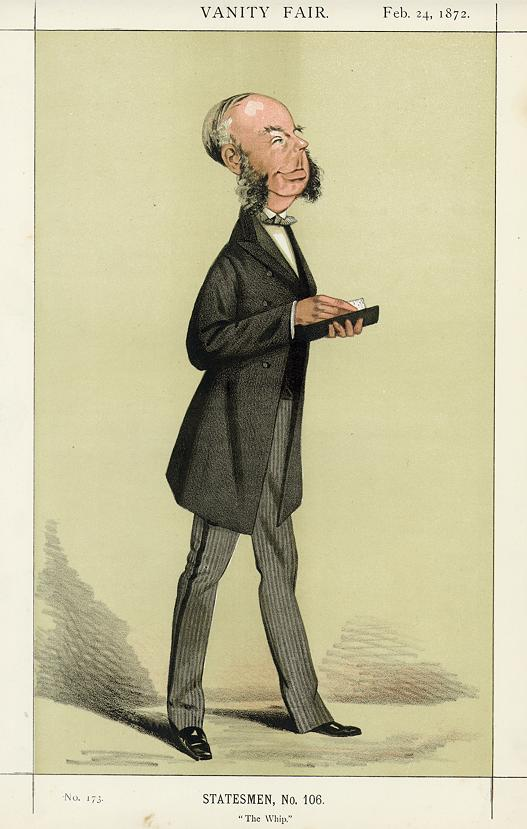 Caricature of George Grenfell Glyn M.P. (1824-1887). Caption read "The Whip".